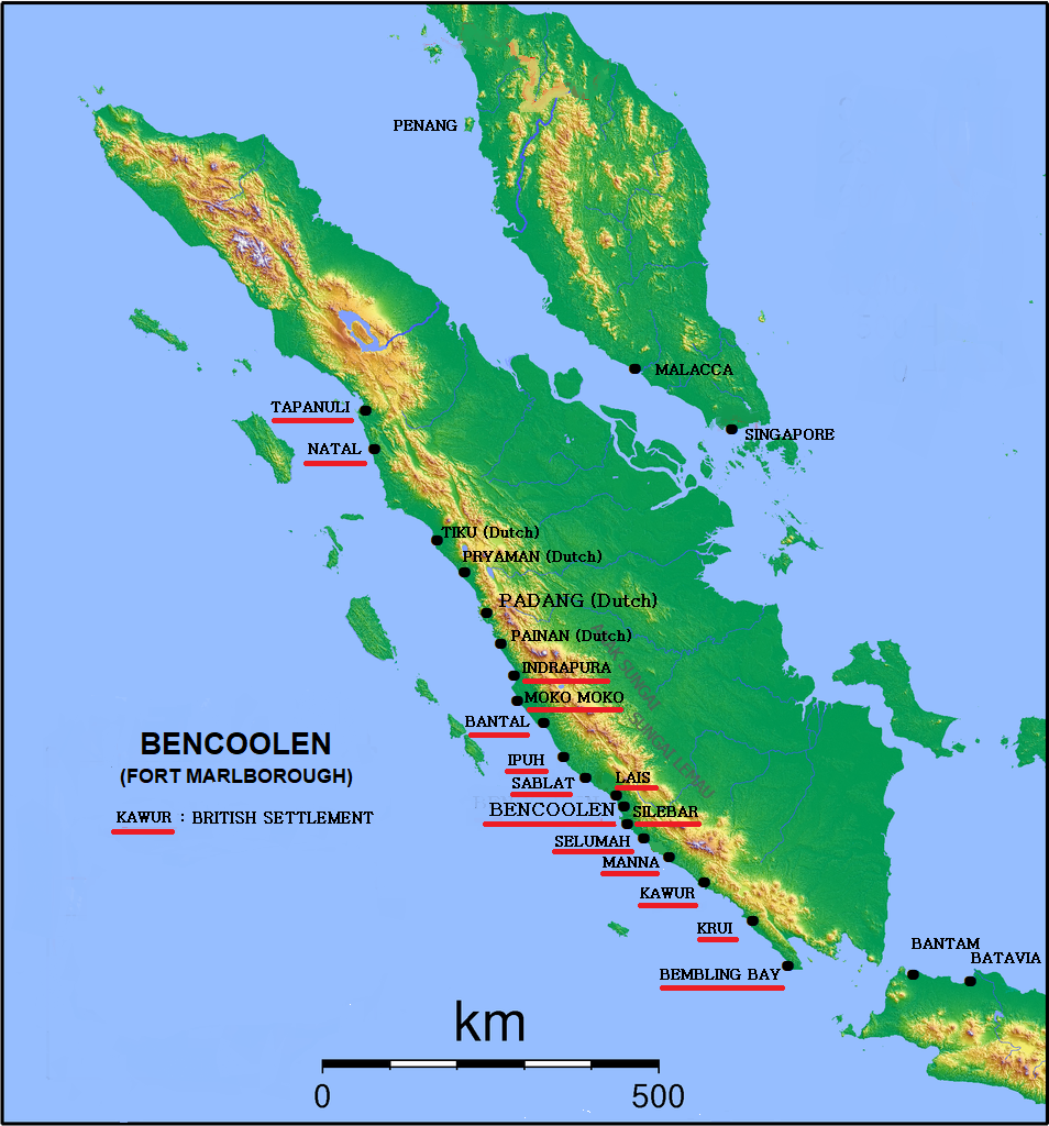 Settlements of British Bencoolen, also called Fort Marlborough, on the west coast of Sumatra. Based on information and maps from various sources, especially J. Kathirithamby-Wells' A Survey of the Effects of British Influence on Indigenous Authority in Southwest Sumatra (1685-1824), and D. K. Bassett's British Trade and Policy in Indonesia 1760-1772). The base map used is a Wikipedia Commons locator map of Indonesia.